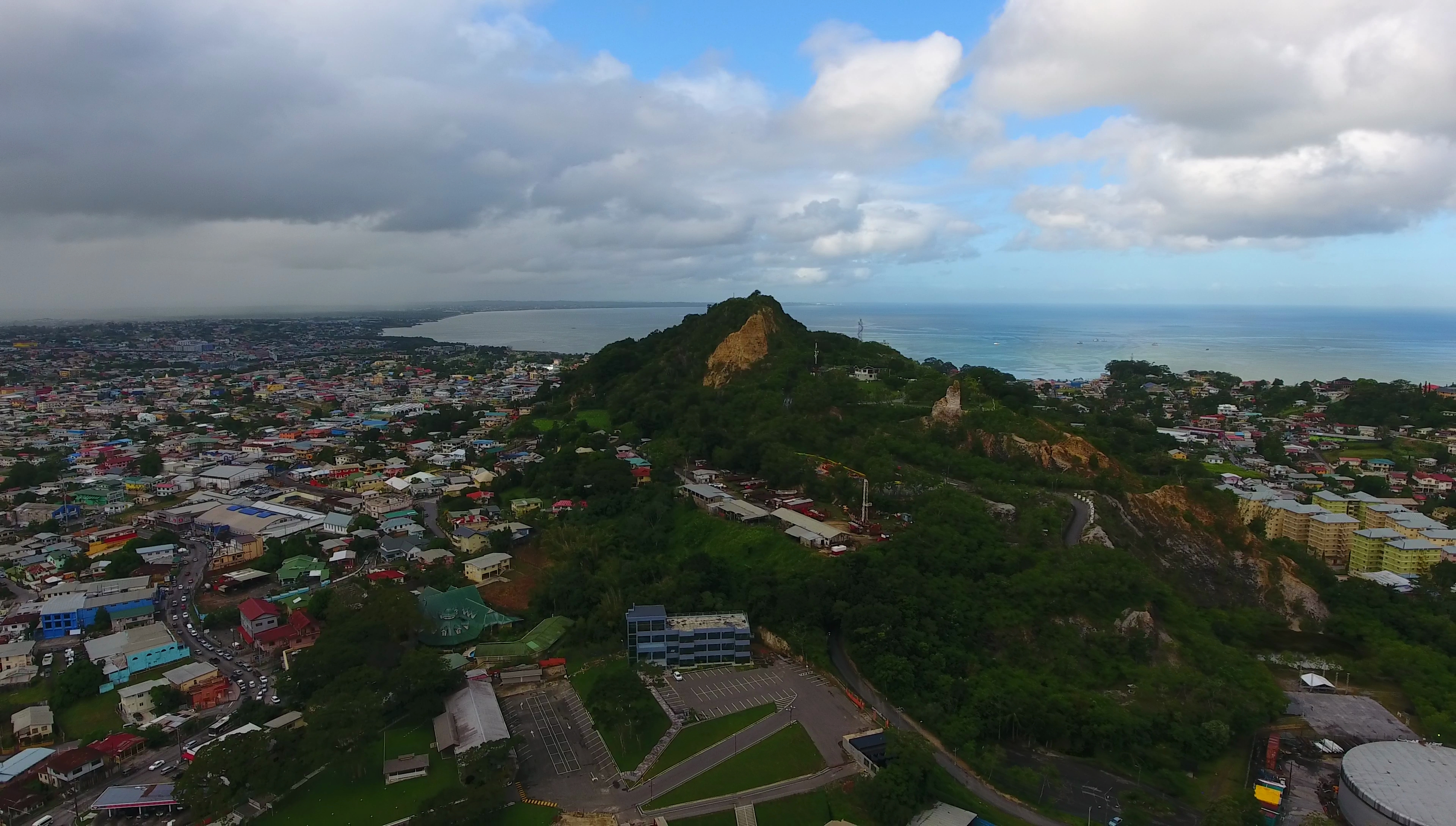 San Fernando Hill, San Fernando, Trinidad and Tobago. Photo taken as part of the Southern Trinidad Aerial Photo Project, a small project sponsored by WMDE. Drone used: DJI Phantom 4. Snapshot taken from video footage via VLC.